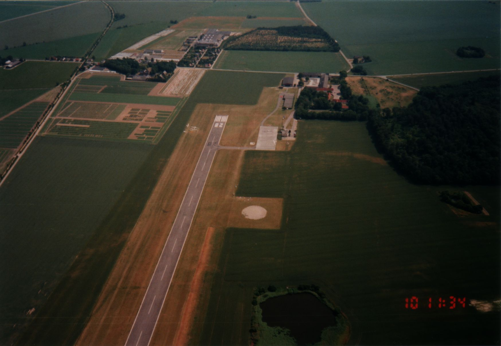 Runway 28 of Lolland Falster Airport seen from under a parachute